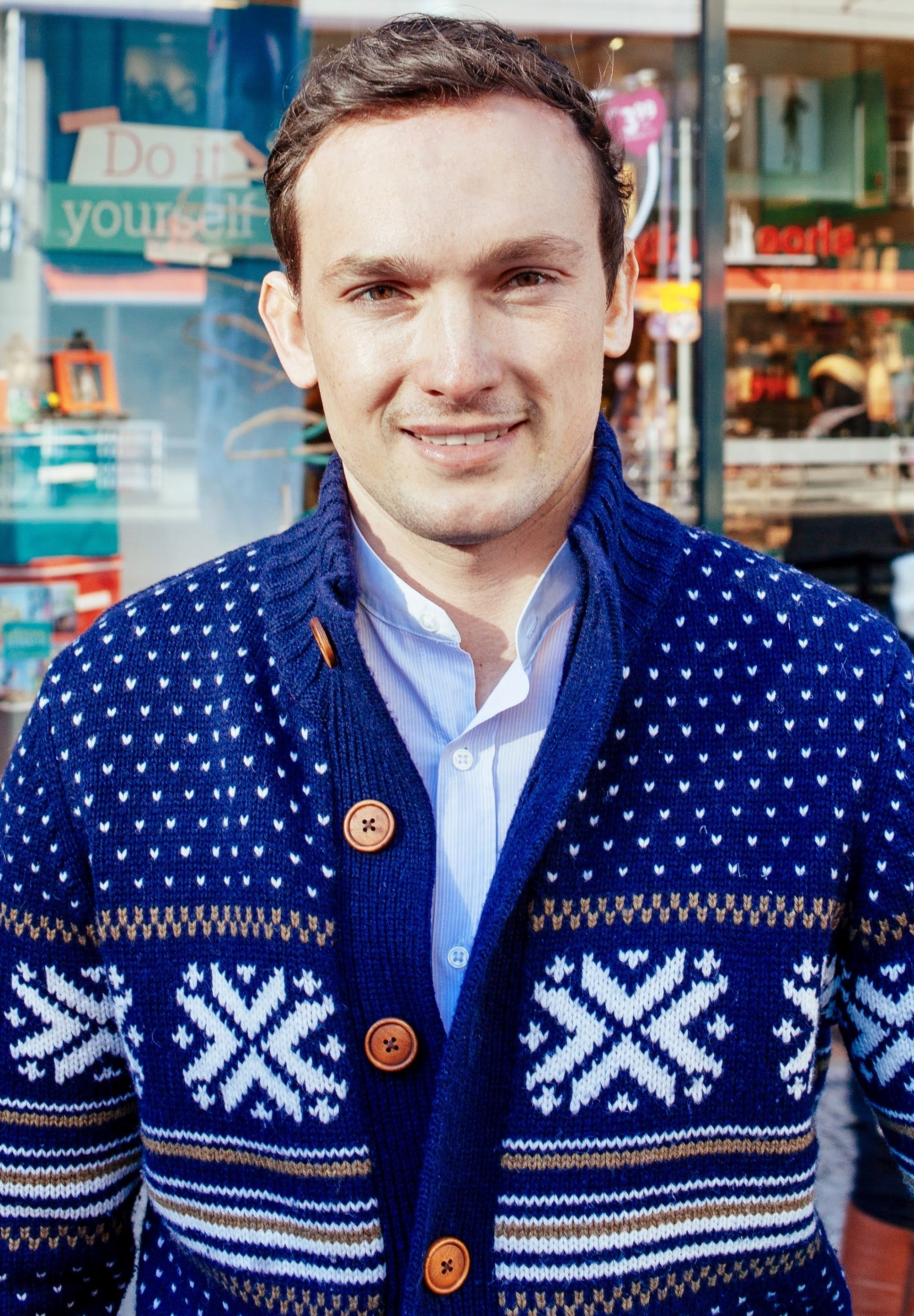 The photo was taken back in 2014, in a public event with a general consent of the respected subject.